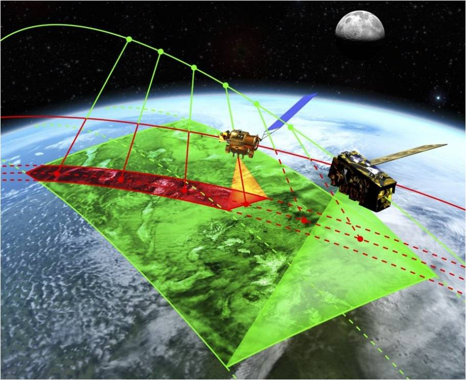 Mock-up of the CLARREO suite as it performs reference intercalibration with another satellite.